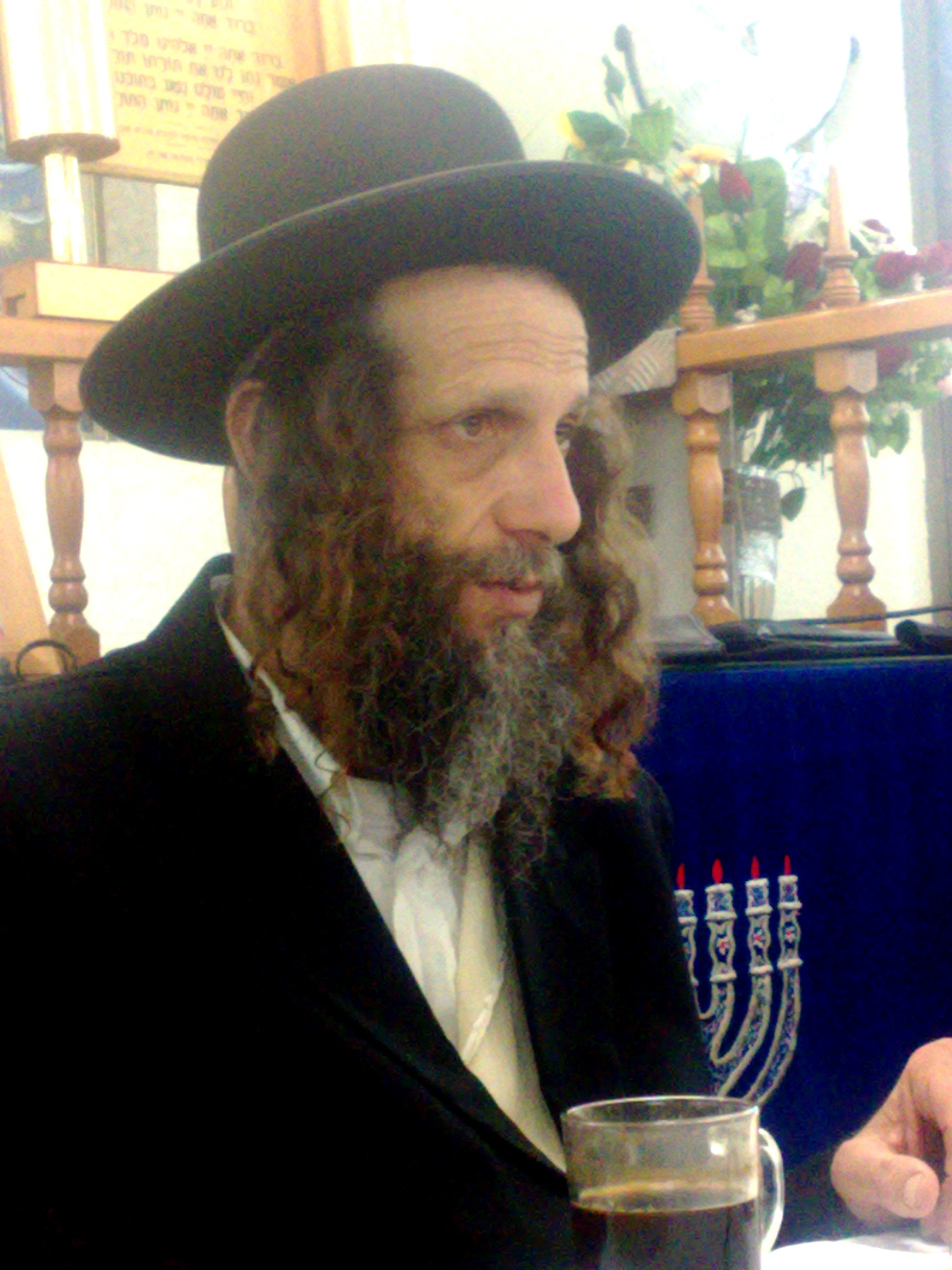 Great hasidic Rabbi Ofer Errz